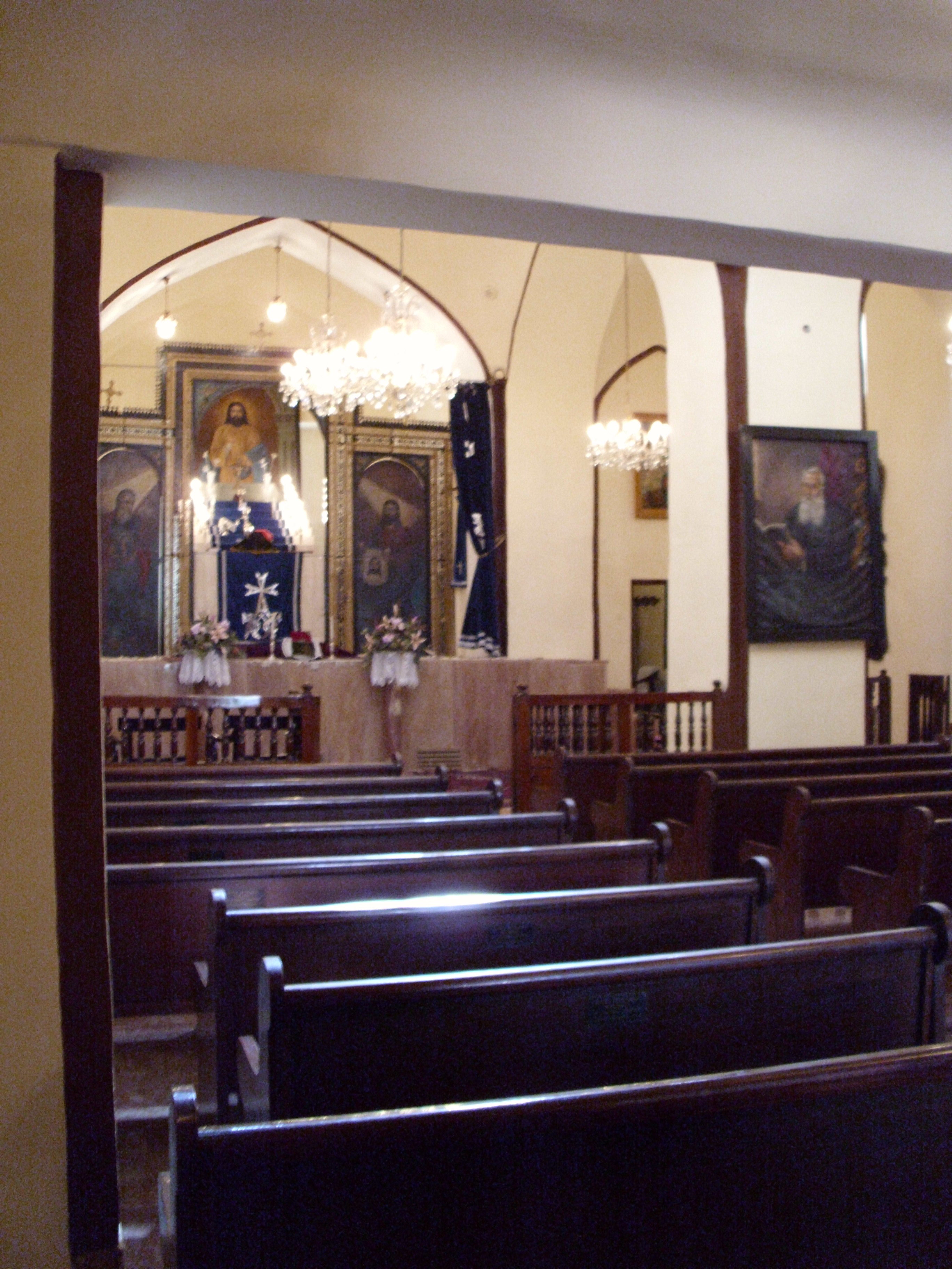 Virgin Mary Armenian Church, Tabriz, Iran.